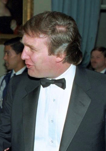 Donald Trump is greeted by President Ronald Reagan at 1987 White House reception.